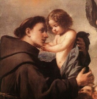 Anthony of Pedua with child Jesus